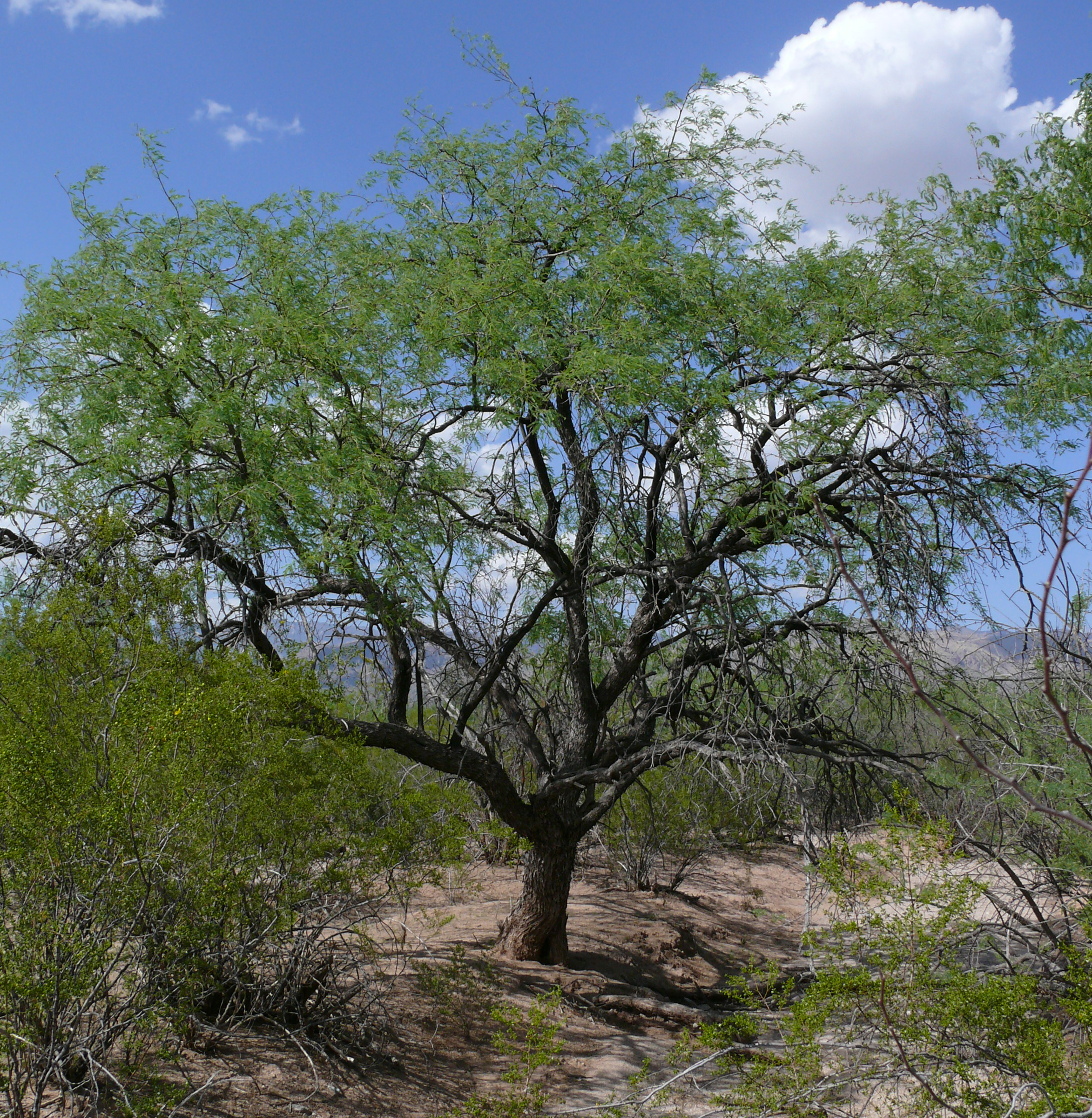 Velvet mesquite, Prosopis veluntina, with spring foliage. Taken on 4/11/07 in Tucson, Arizona, USA with a Panasonic Lumix DMC-FZ50.